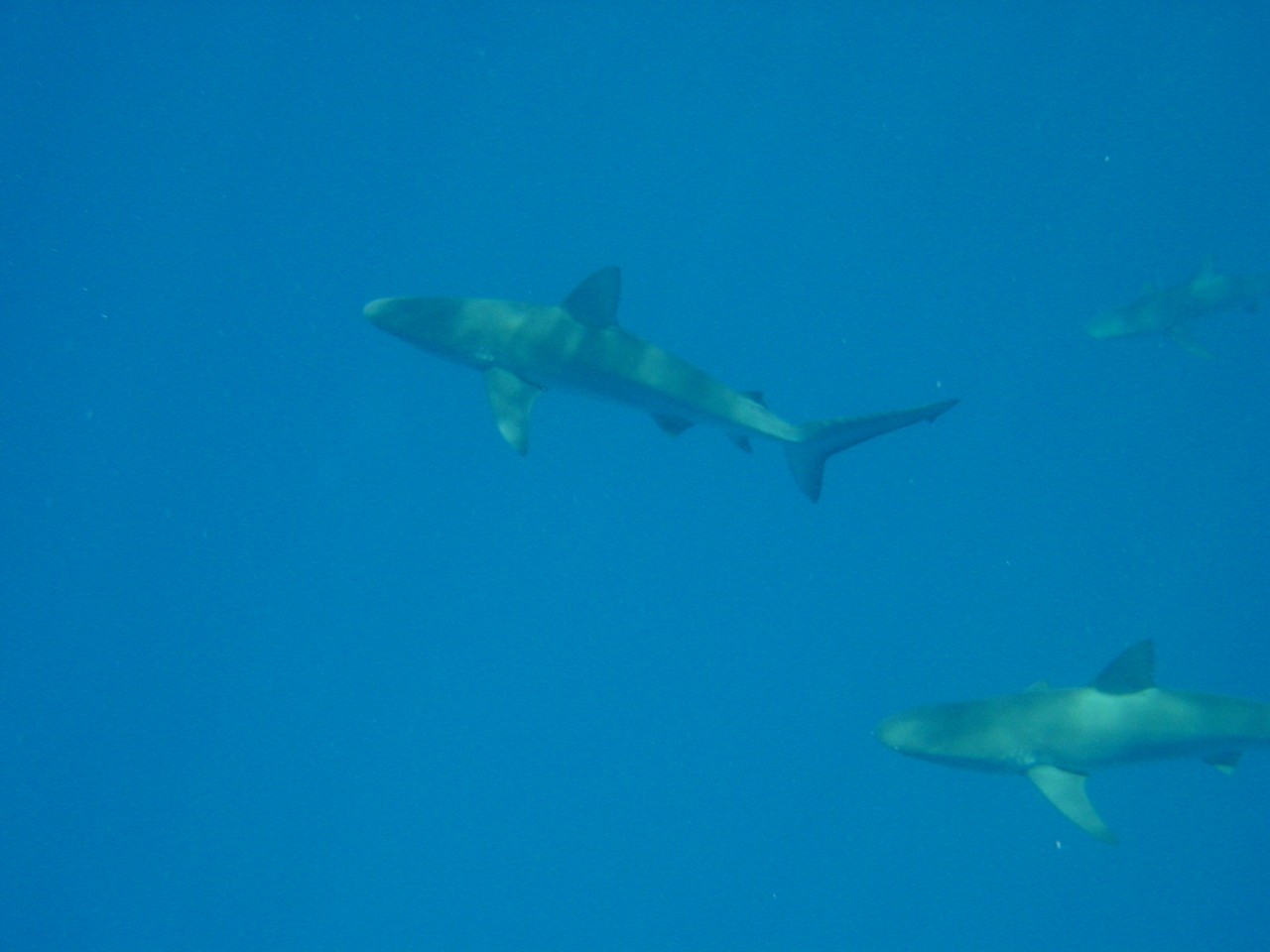 Group of grey reef sharks (Carcharhinus amblyrhynchos) in the northwestern Hawaiian Islands.